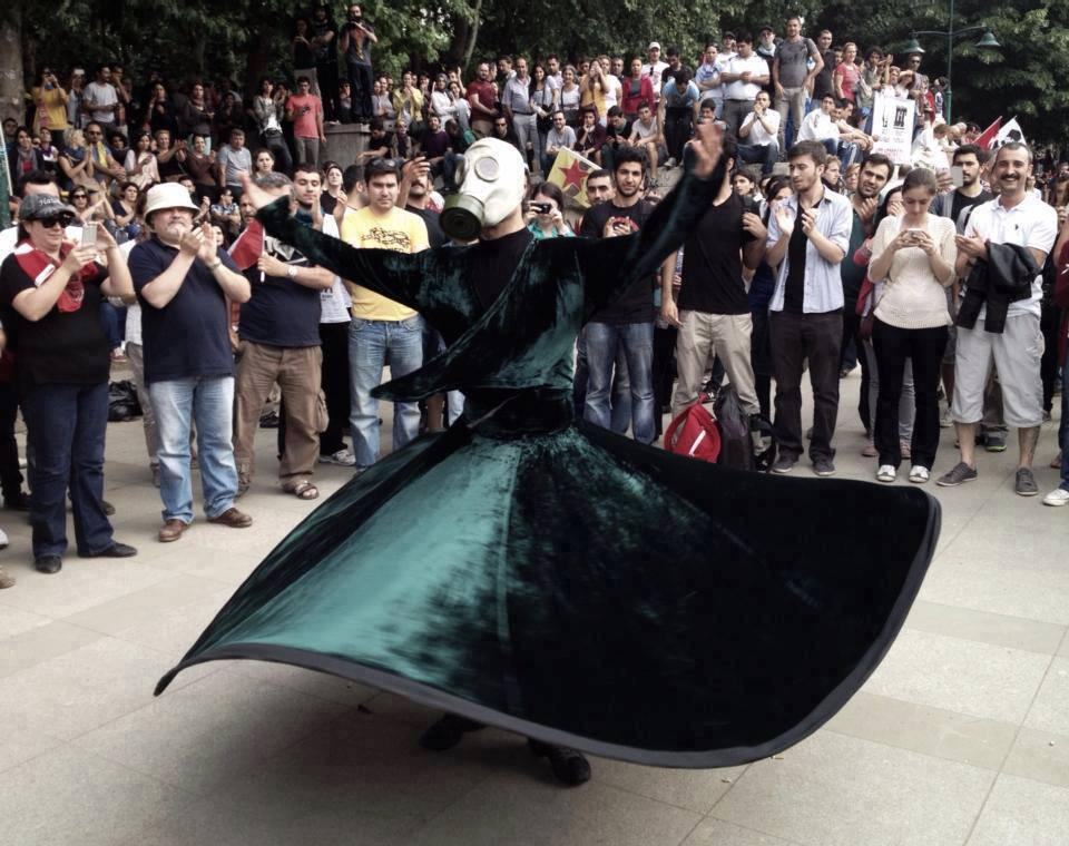 A whirling sufi wearing gas mask during the 2013 protests in Turkey in Gezi Park (2 June 2013)